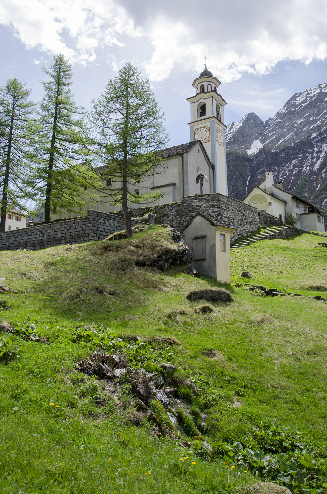 Progetto Parco Nazionale del Locarnese - Bosco Gurin - Church of St.Jacob and Christopher